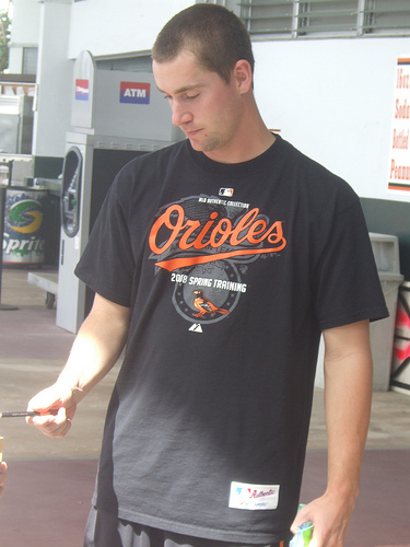 Brian Burres 10:00, 29 January 2009 . . Officerfrank . . 375×500 (90 KB)